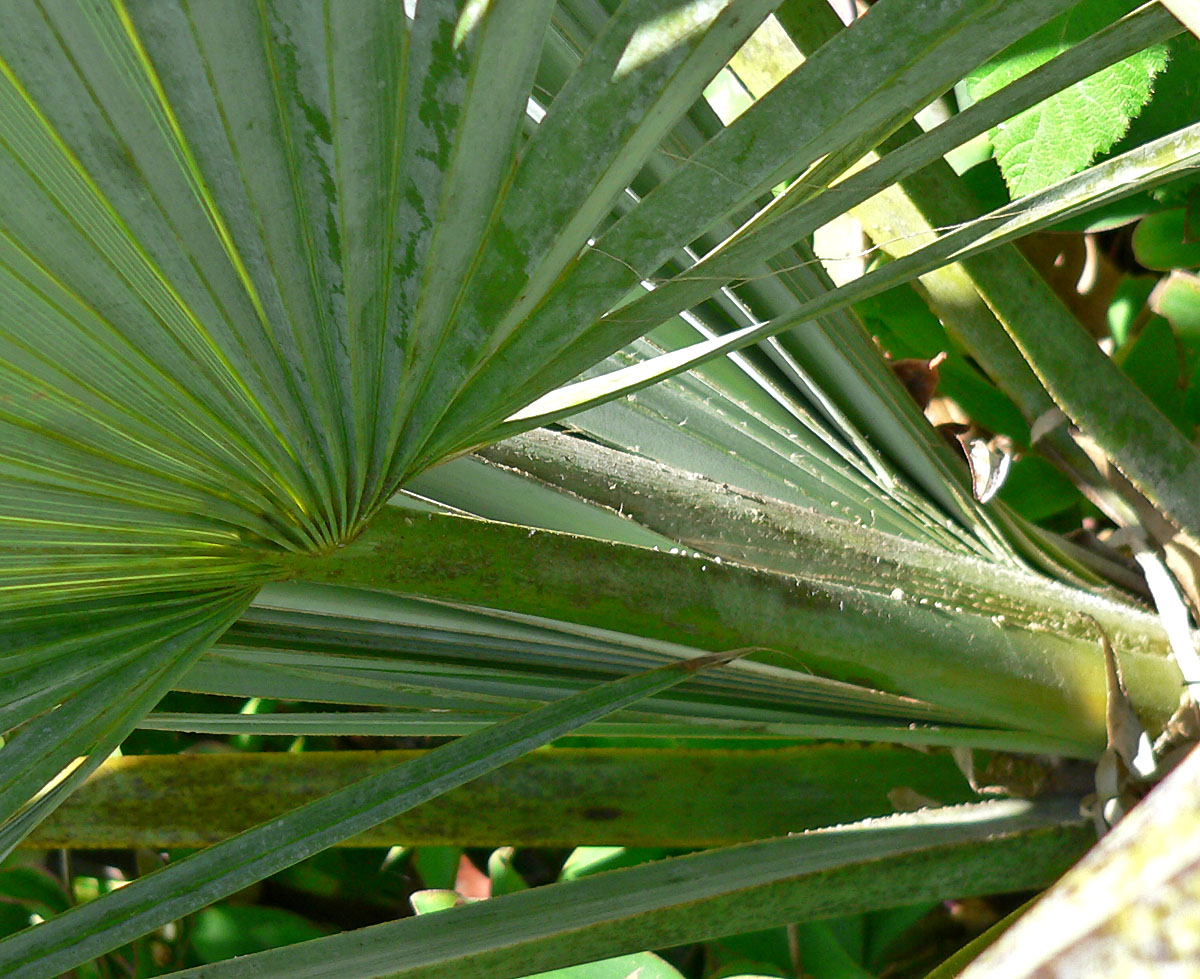 Brahea decumbens at the University of California Botanical Garden, Berkeley, California